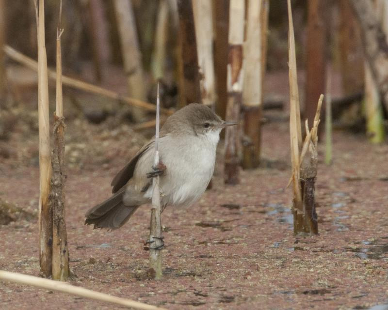 Lesser Swamp Warbler (Acrocephalus gracilirostris), 16th. August 2011 Marievale, Gauteng, South Africa